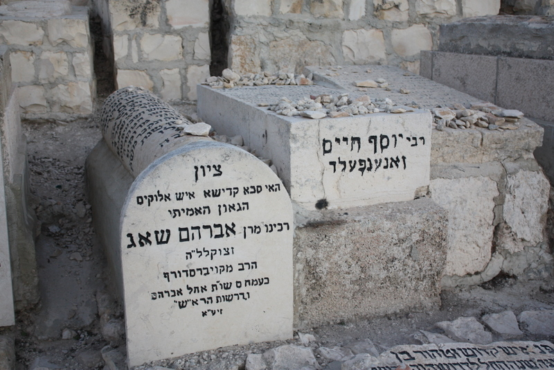 Grave of Rabbi Avraham Shag - Mount of Olives, Jerusalem, Israel